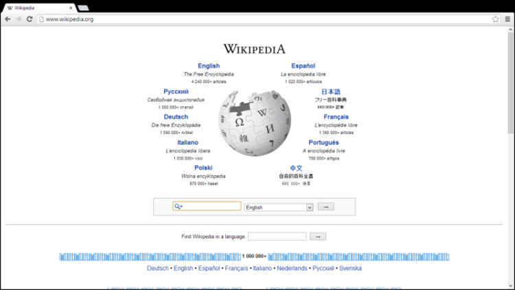 Screenshot of Google Chrome in Windows 8 metro mode displaying the Wikipedia home page.